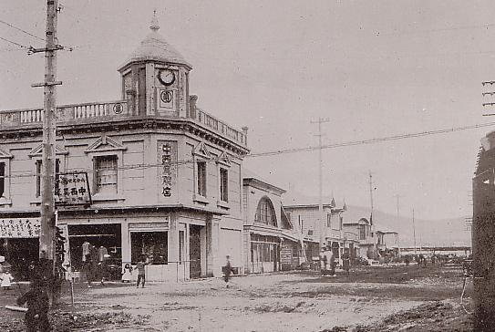 Takasagocho in Tomarioru(Tomari Томари)